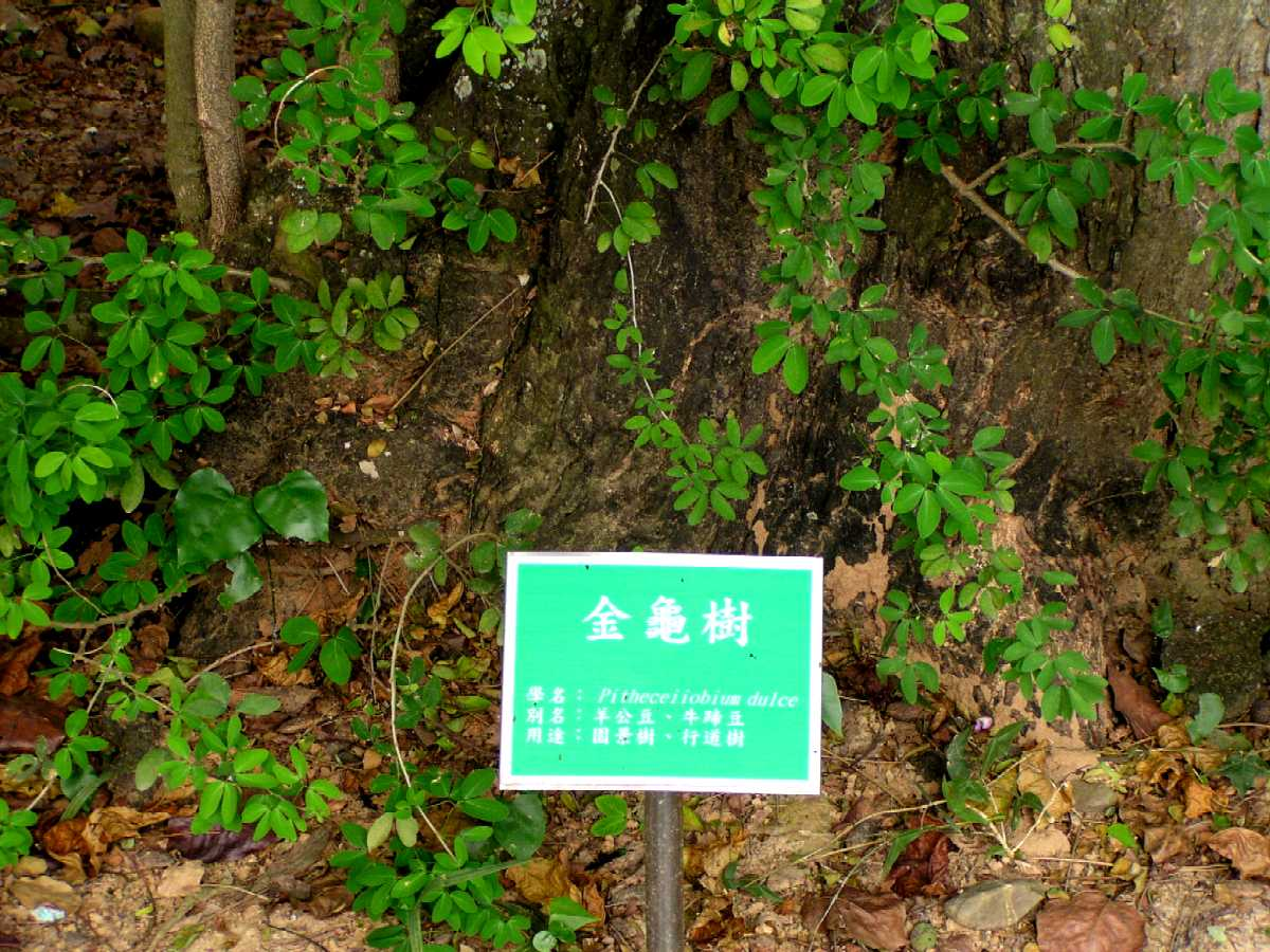 Pithecellobium Dulce Tree